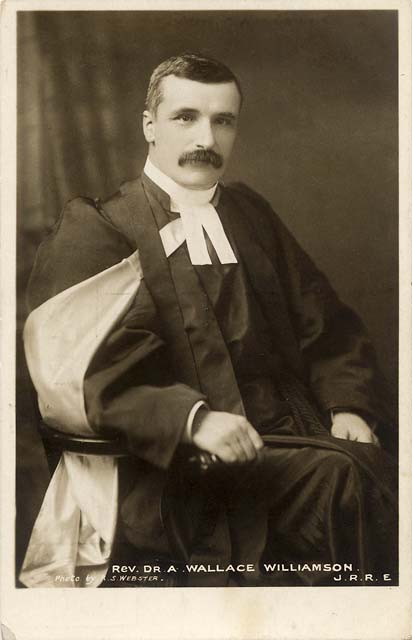 Postcard of Reverend Wallace Williamson. Considered pd-old per